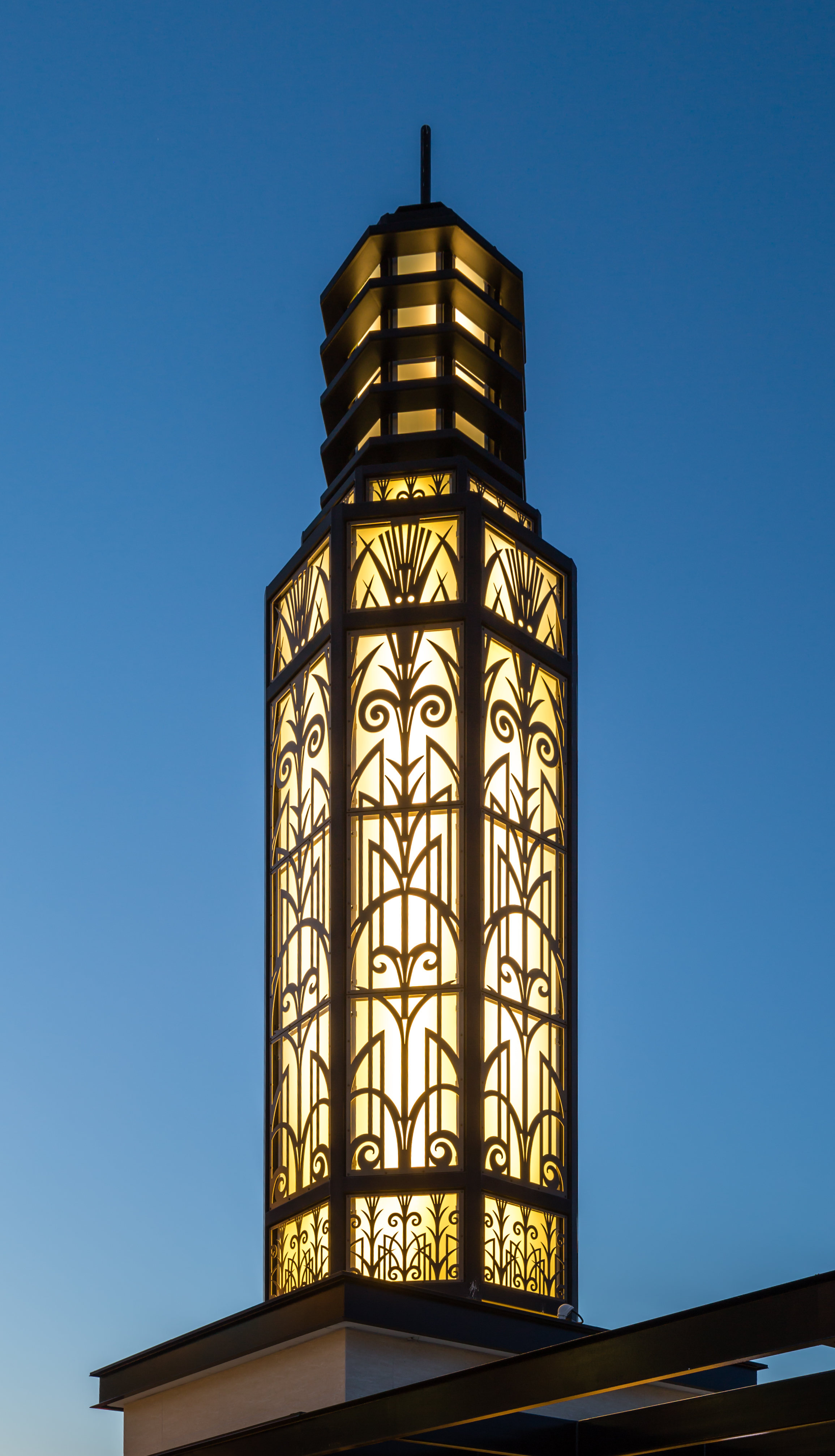 The hexagon-shaped tower which sits on top of an elevator going down to underground garages in Uptown, Saanich, British Columbia, Canada. The picture was taken during the blue hour, about 25 minutes after sunset.